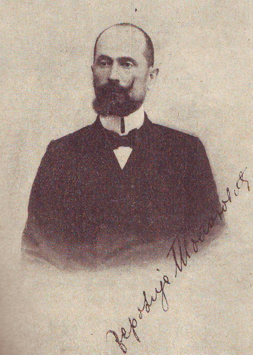 A photograph of Jerotije Topalović, principal of the Serbian Gymnasium in Bitola (1905-1907). Srpski (latinica): Fotografija Jerotija Topalovića, direktora Srpske gimnazije u Bitolju (1905-1907).